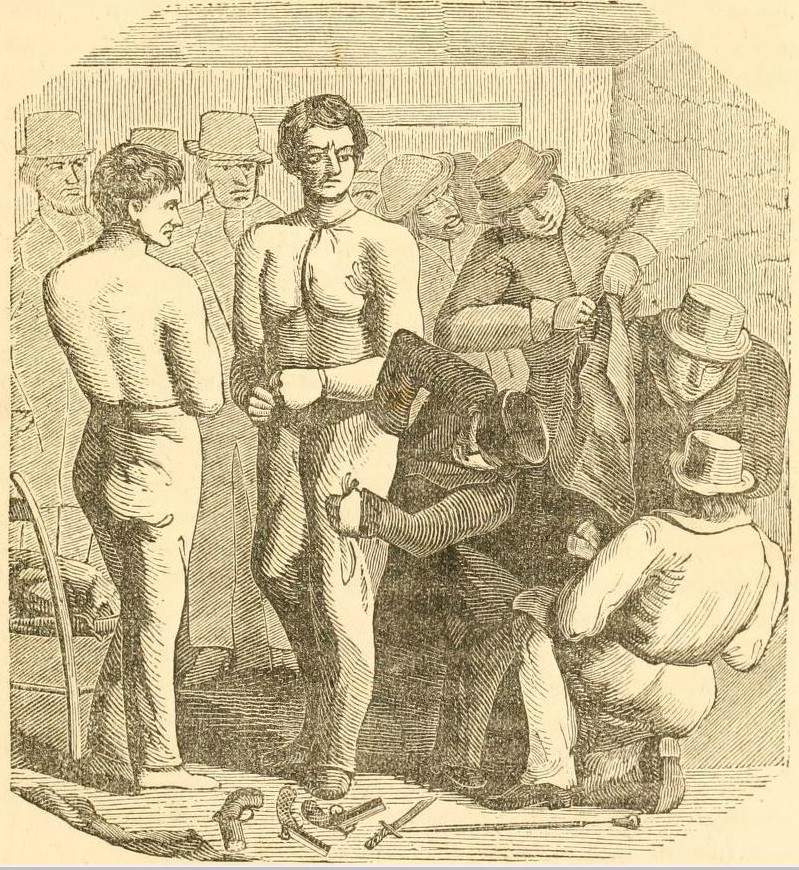 Banditti Of The Prairies : Search Of Bonney And Fox